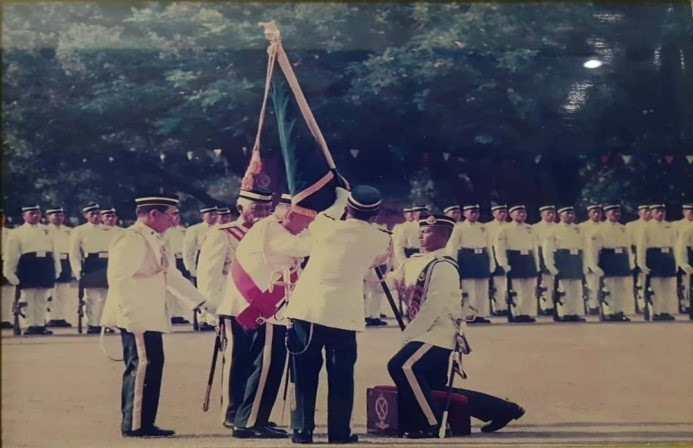 panji